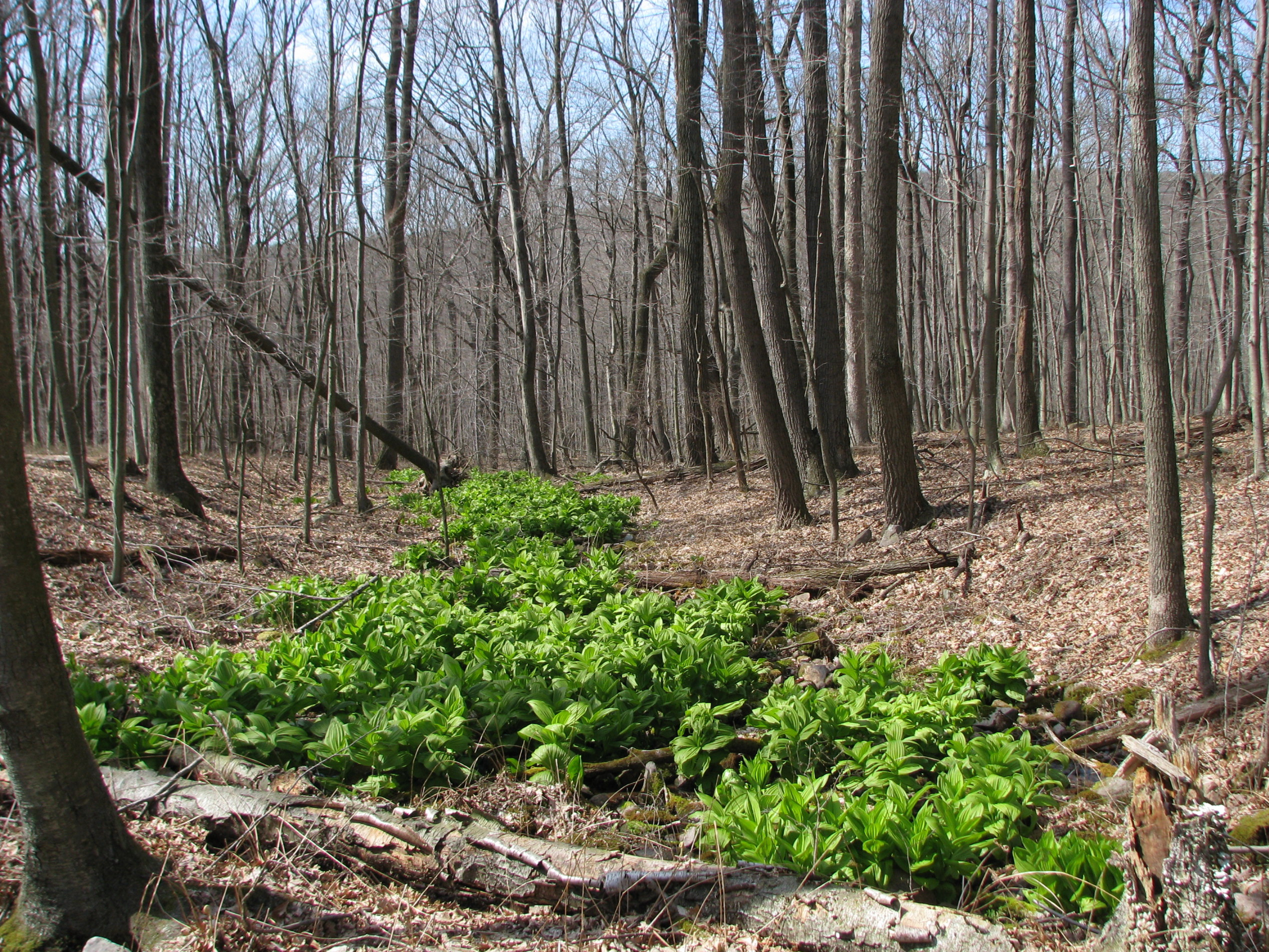 False Hellabore at French Creek State Park